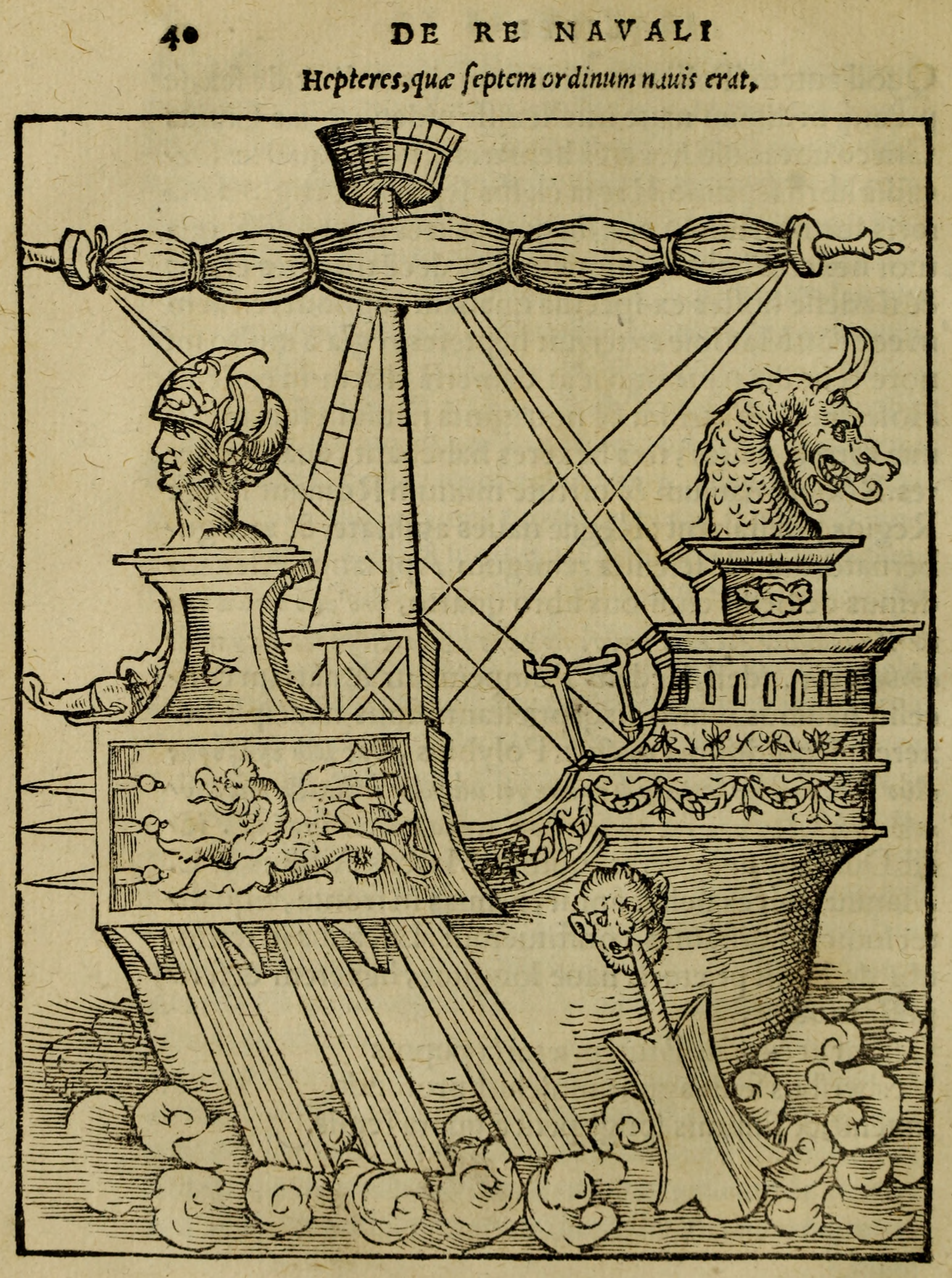 Drawing of a heptere ("seven") from the 1541 book "De re navali" by Lazare de Baif (1496-1547). Uploaded to show the misconceptions of the appearance of multi-oared galleys at the time, compared to modern interpretations.